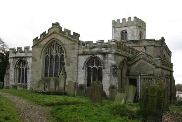 Brafferton church - east end An unusual parish church, with a nave wider than it is long, due mainly to rebuilding in 1831.